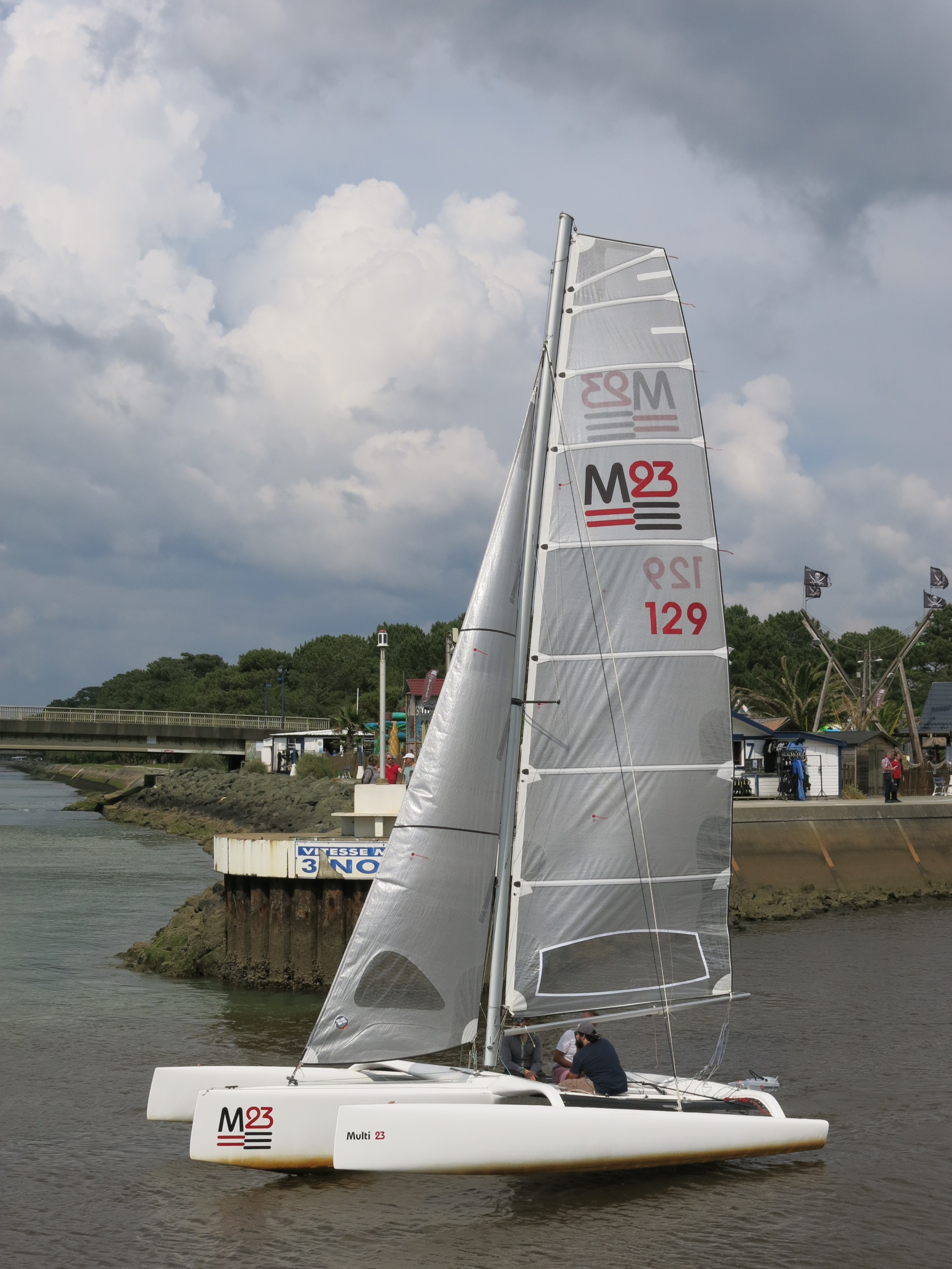 Trimaran Multi 23 in the harbour of Capbreton (Landes, France).